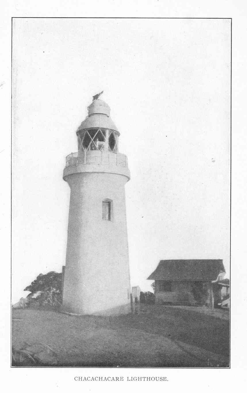 Chacachacare Lighthouse Subject: Chacachacare (Trinidad and Tobago), Lighthouses--Trinidad and Tobago Geographic Subject: Trinidad and Tobago--Chacachacare Tag: Coasts